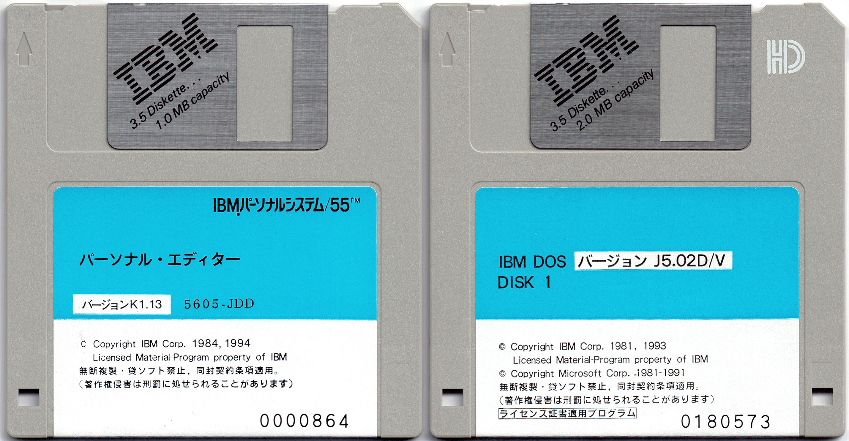 IBM 3.5-inch DD (720 KB formatted / 1.0 MB unformatted) and HD (1440 KB formatted / 2.0 MB unformatted) diskettes